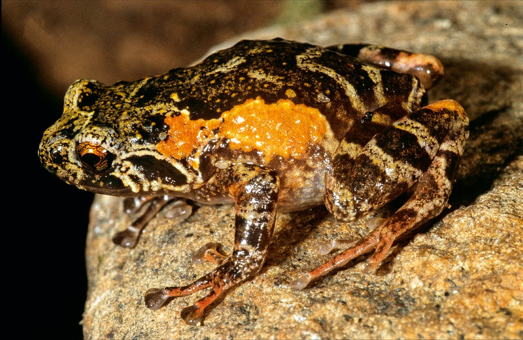 Anodonthyla emilei, Fig. 10a-d. Specimens of Anodonthyla emilei in life (all males). (A-B) Holotype specimen ZSM 673/2003 from Samalaotra (Ranomafana National Park) in dorsolateral and ventral views; (C-D) paratypes ZSM 368/2004 and 366/2004 from Maharira (Ranomafana National Park) in dorsolateral view.